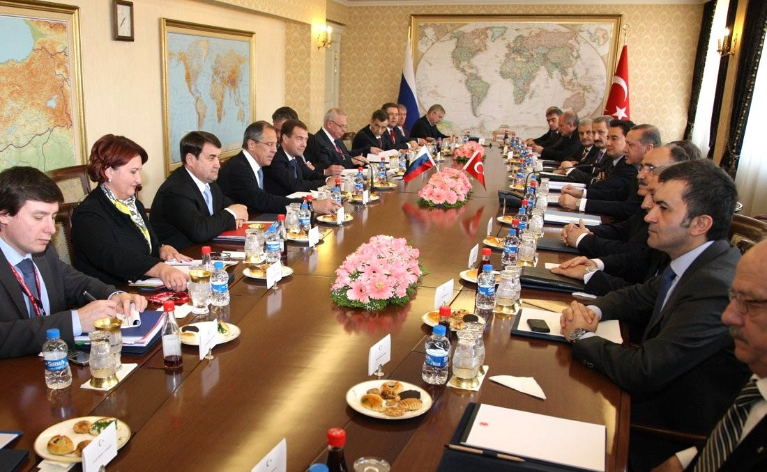 Turkish prime minister Recep Tayyip Erdoğan and Russian president Dmitry Medvedev on state visit in Turkey.